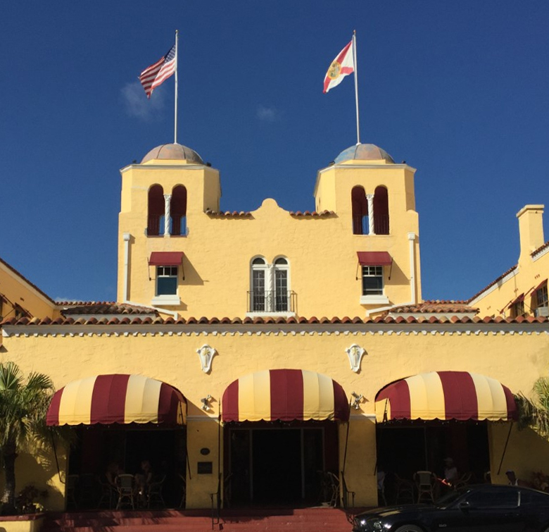 Front entrance to the Colony Hotel on East Atlantic Avenue, Delray Beach, Florida. The structure, designed by architect Martin Hampton, was built in 1926.